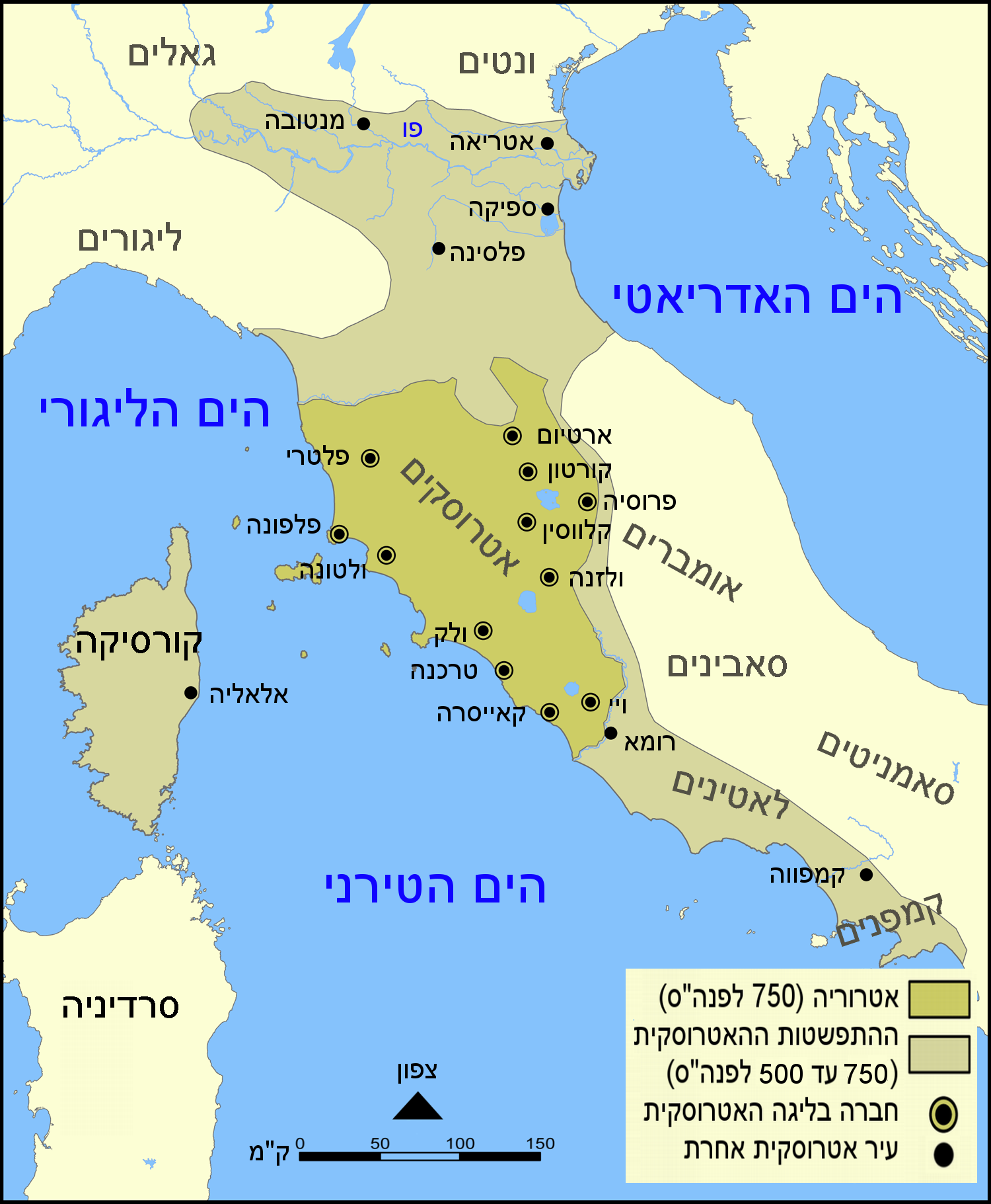 Etruria and the Etruscan civilization